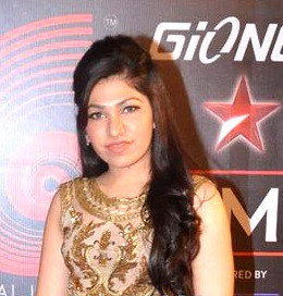 Tulsi Kumar at 4th Gionnee Star Global Indian Music Academy Awards